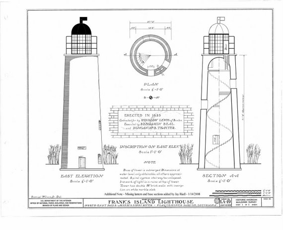 Frank's Island Lighthouse, design by Winslow Lewis, 1823 This lighthouse was built at "Frank's Island" or "Frank Island", in Louisiana at the mouth of the Mississippi River, in 1823, replacing an earlier lighthouse at the site which had collapsed due to foundation problems. This lighthouse served through 1856; Frank Island was eroded away by the 1950s, and the ruins of the old lighthouse collapsed in 2002.